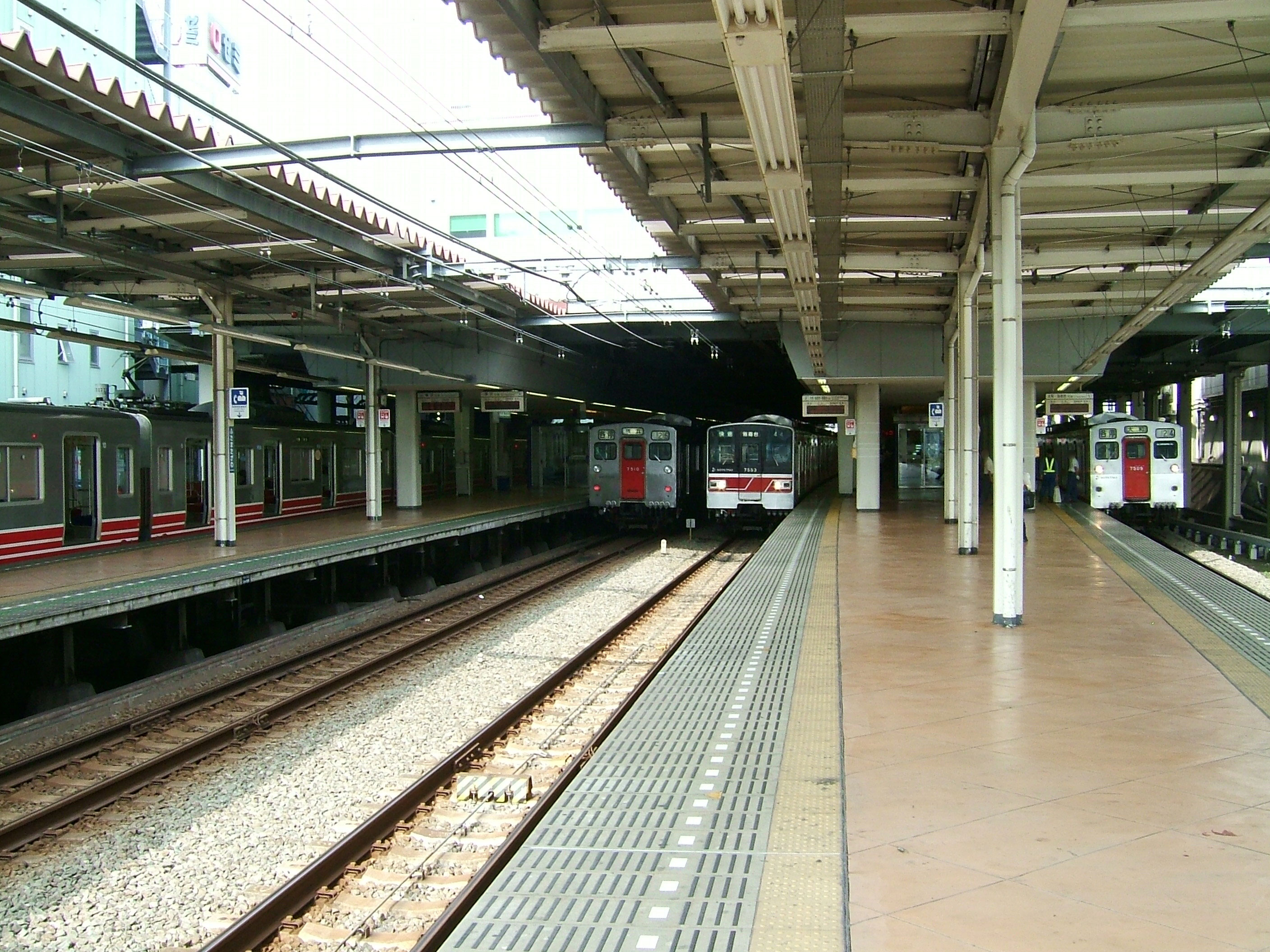 The platforms at Futamata-gawa Station on the Sagami Railway Main Line in Asahi-ku, Yokohama, Japan